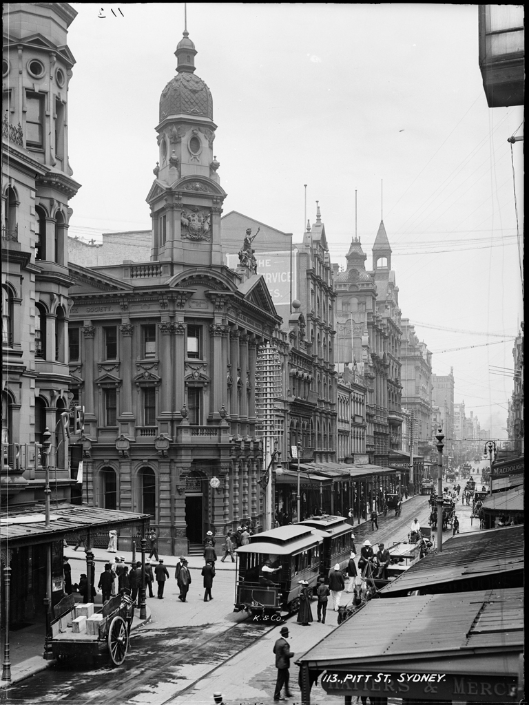 'Sydney City' Pictures from The Powerhouse Museum This files was posted to Flickr by The Powerhouse Museum (See their website for further information). Many thanks to the Powerhouse Museum for helping release this wonderful material. This tag does not indicate the copyright status of the attached work. A normal copyright tag is still required. See Commons:Licensing for more information.